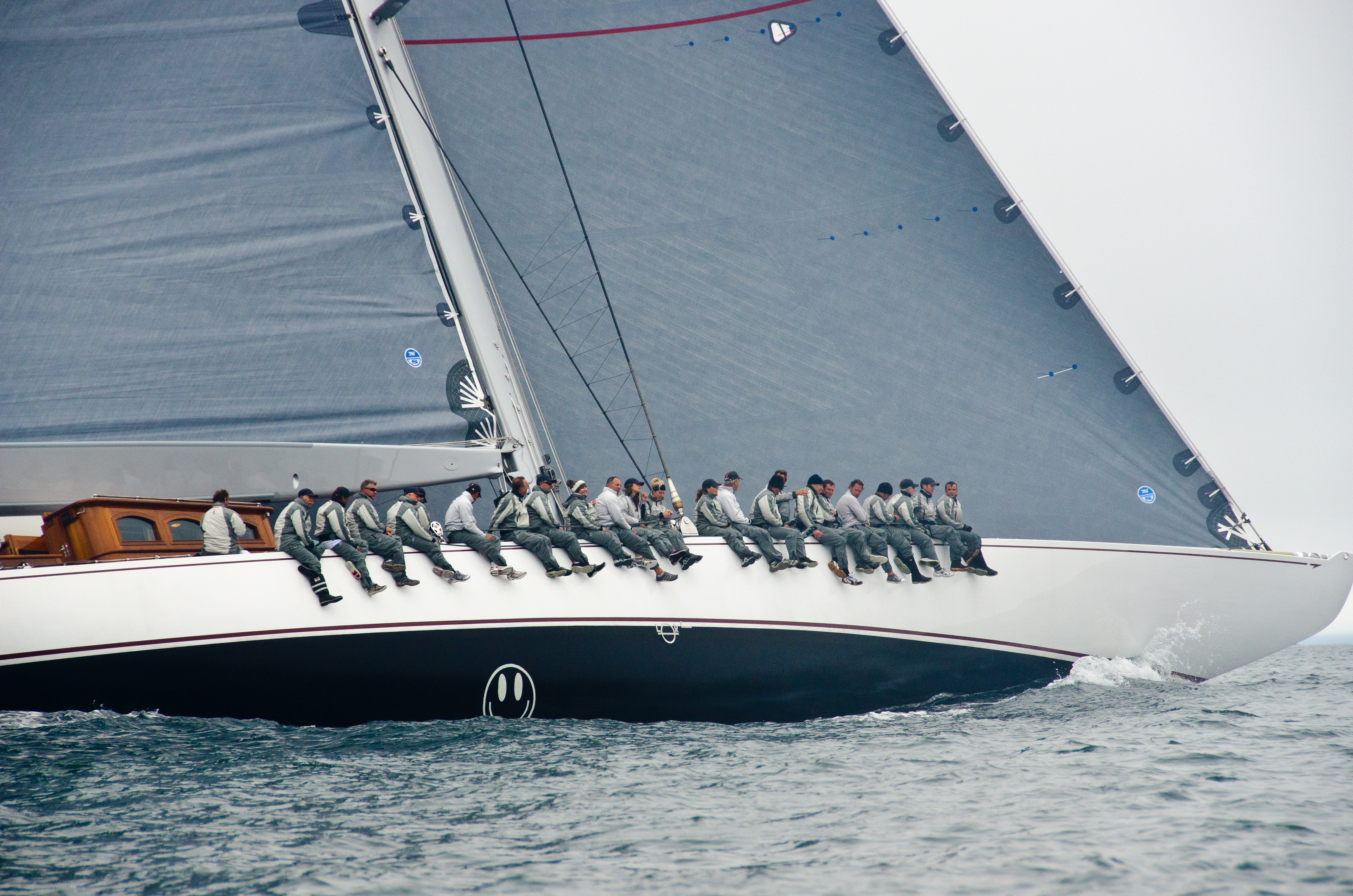 Yacht Ranger under sail at the J-Class regatta in Falmouth, 2012.